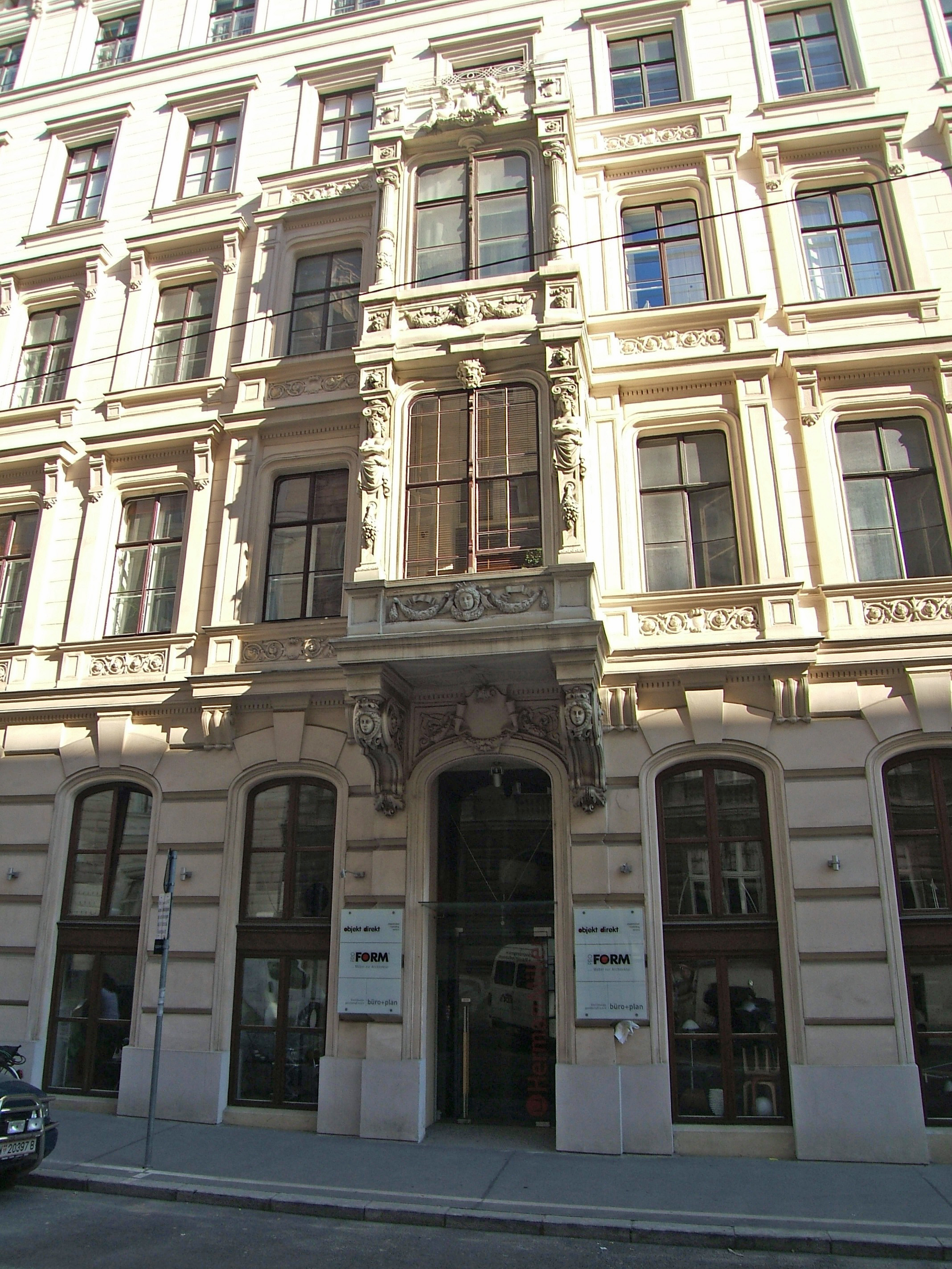 Bay of the palais Bauer in Vienna, 9th district Türkenstraße 17